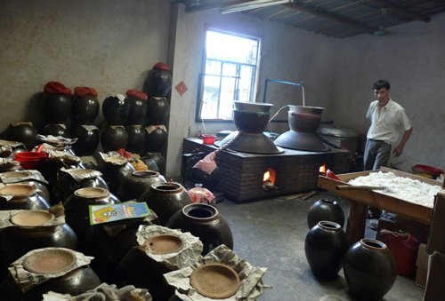 The home Baijiu distillery in "Nongjiale" hotel, Zengcheng City, Guangdong Province (China)